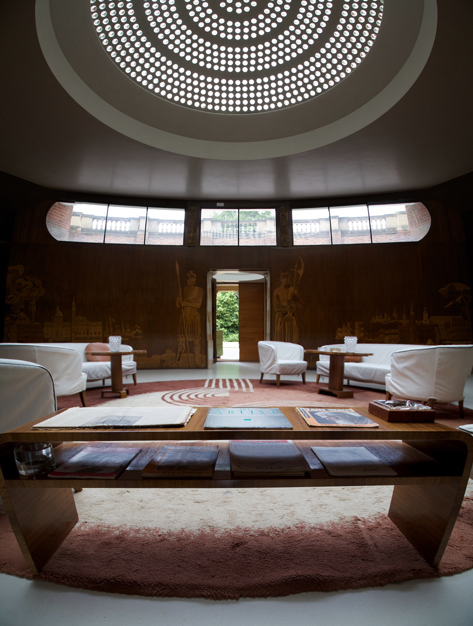 Eltham Court (eltham Palace) Wikidata has entry Q17551054 with data related to this item.